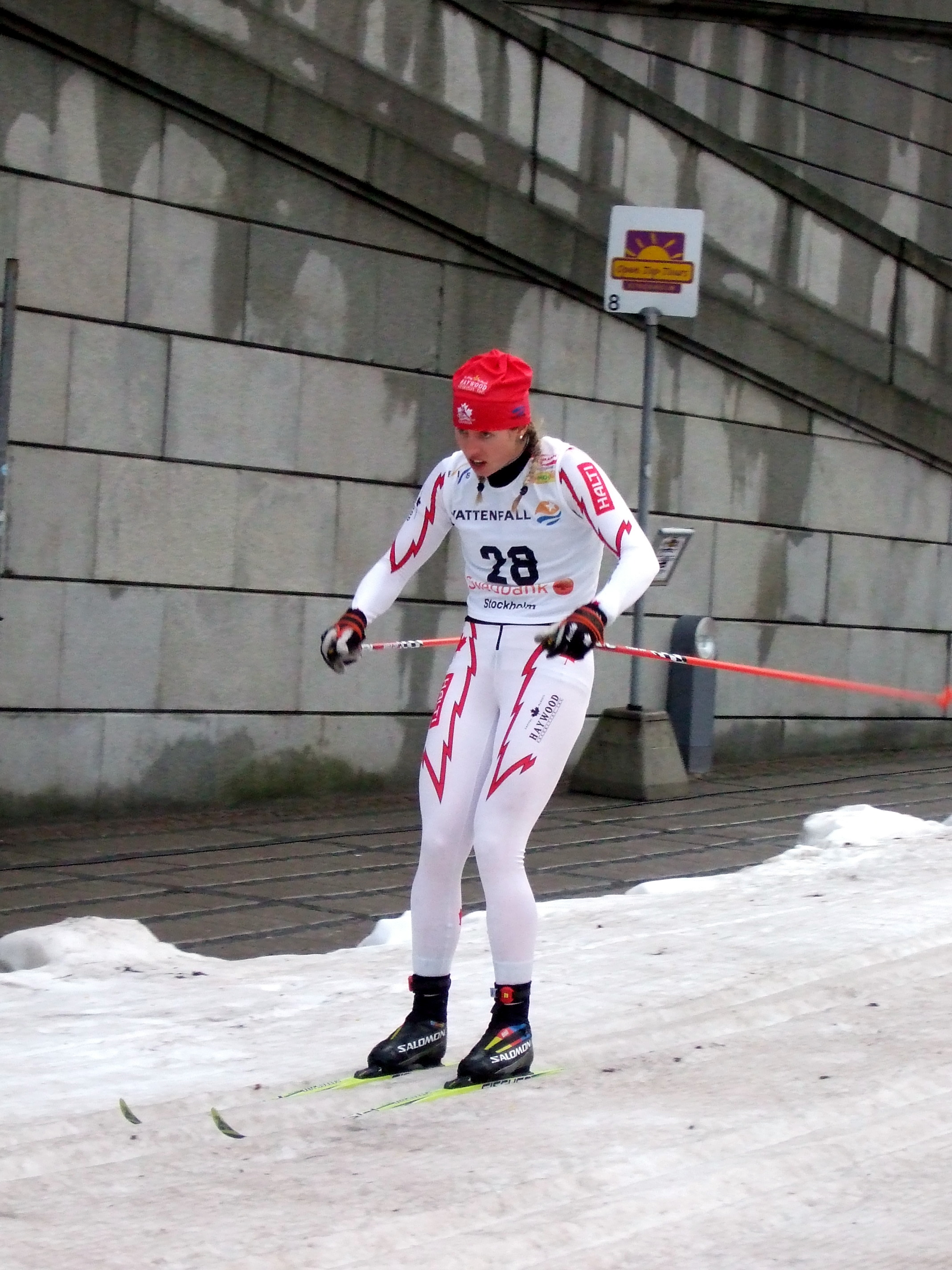 Chandra Crawford at the Royal Castle World Cup sprint in Stockholm, Sweden